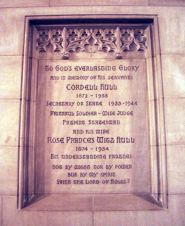 Tomb of Cordell Hull in the south aisle of the crypt level of the Washington National Cathedral in Washington, D.C. Hull was a member of the U.S. House of Representatives from 1907 to 1921 and again from 1923 to 1931 -- a total of 22 years. As a member of the powerful Ways and Means committee, he fought for low tariffs and authored the federal income tax laws of 1913 and 1916 and the inheritance tax of 1916. He ran for President in 1928. Hull was elected to the U.S. Senate in 1930. In 1933, President Franklin D. Roosevelt named him Secretary of State. Hull served throughout World War II, although his stiff-necked conduct toward the Japanese in late 1941 probably contributed to Imperial Japan's impression that the U.S. would, sooner or later, seek war. That perception led directly to Japan's decision to launch the attack on Pearl Harbor. Hull resigned as Secretary of State in November 1944 because of failing health. He was given the Nobel Peace Prize in 1945. Hull was the longest-serving Secretary of State at 11 years, nine months. Hull died in Washington, D.C., on July 23, 1955, after a lifelong struggle with sarcoidosis (nodules throughout the body's organs which become inflamed periodically). Hull was interred in the burial vault beneath the Joseph of Arimathea Chapel. His wife, who preceded him in death, had already been buried there. This plaque is in the south aisle of the crypt level, just outside the Joseph of Arimathea Chapel and roughly above the place where Hull lies.